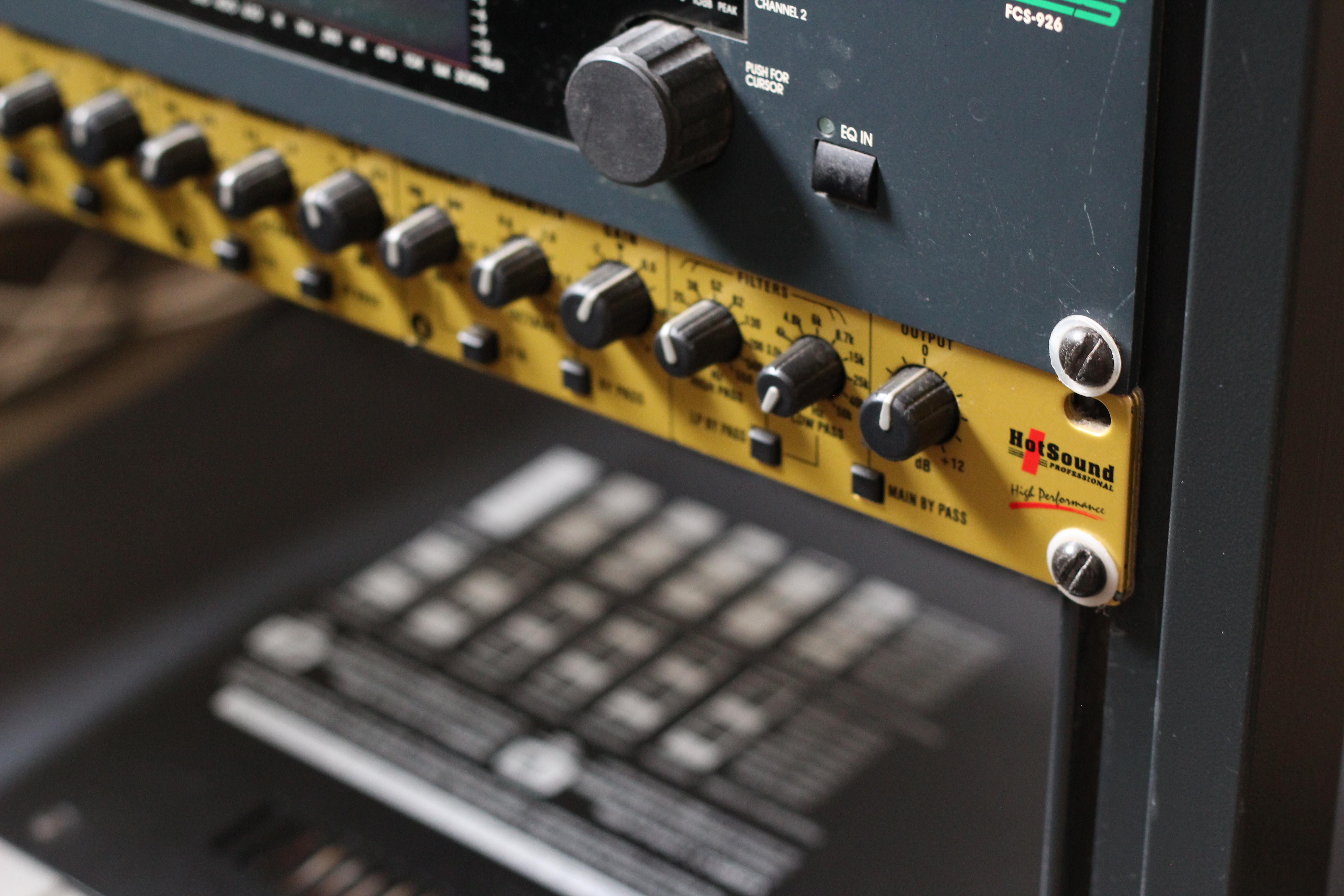 BSS FCS-926 VARICURVE Dual Equaliser / Analyser HotSound PEQ 1004 Parametric Equalizer